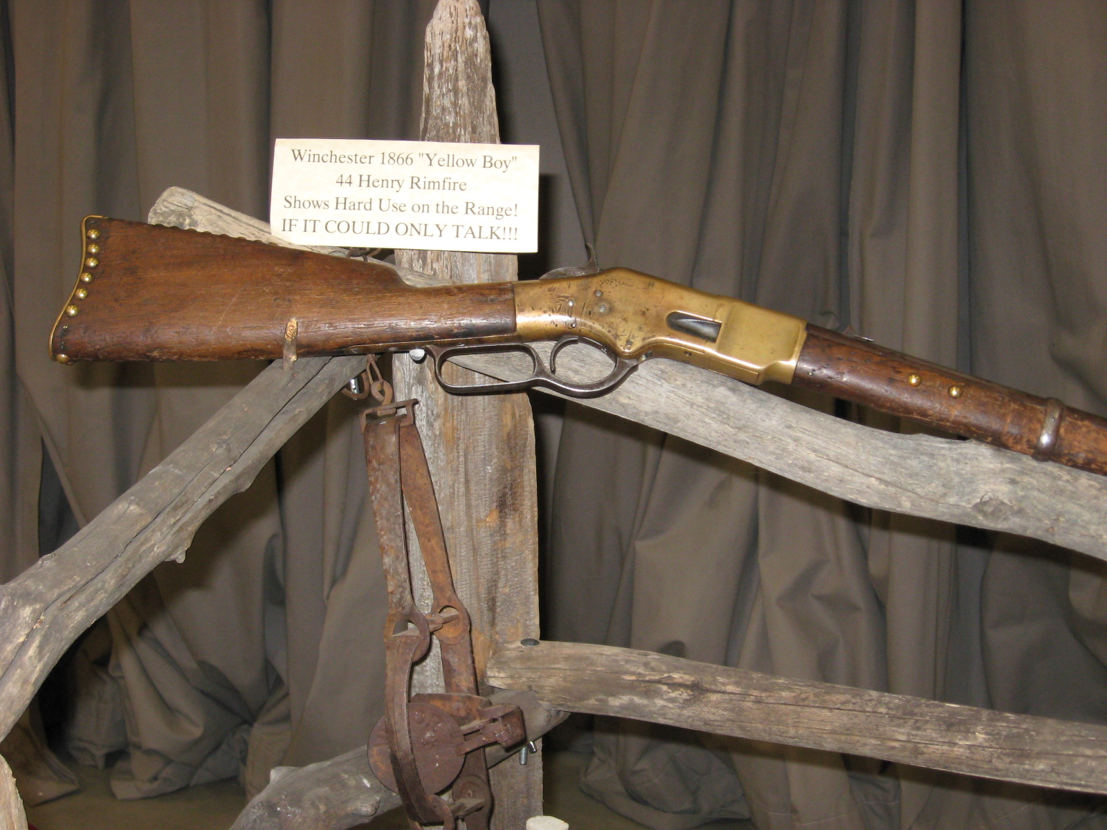 1866 winchester yellow boy rifle, brass action, .44 Henry